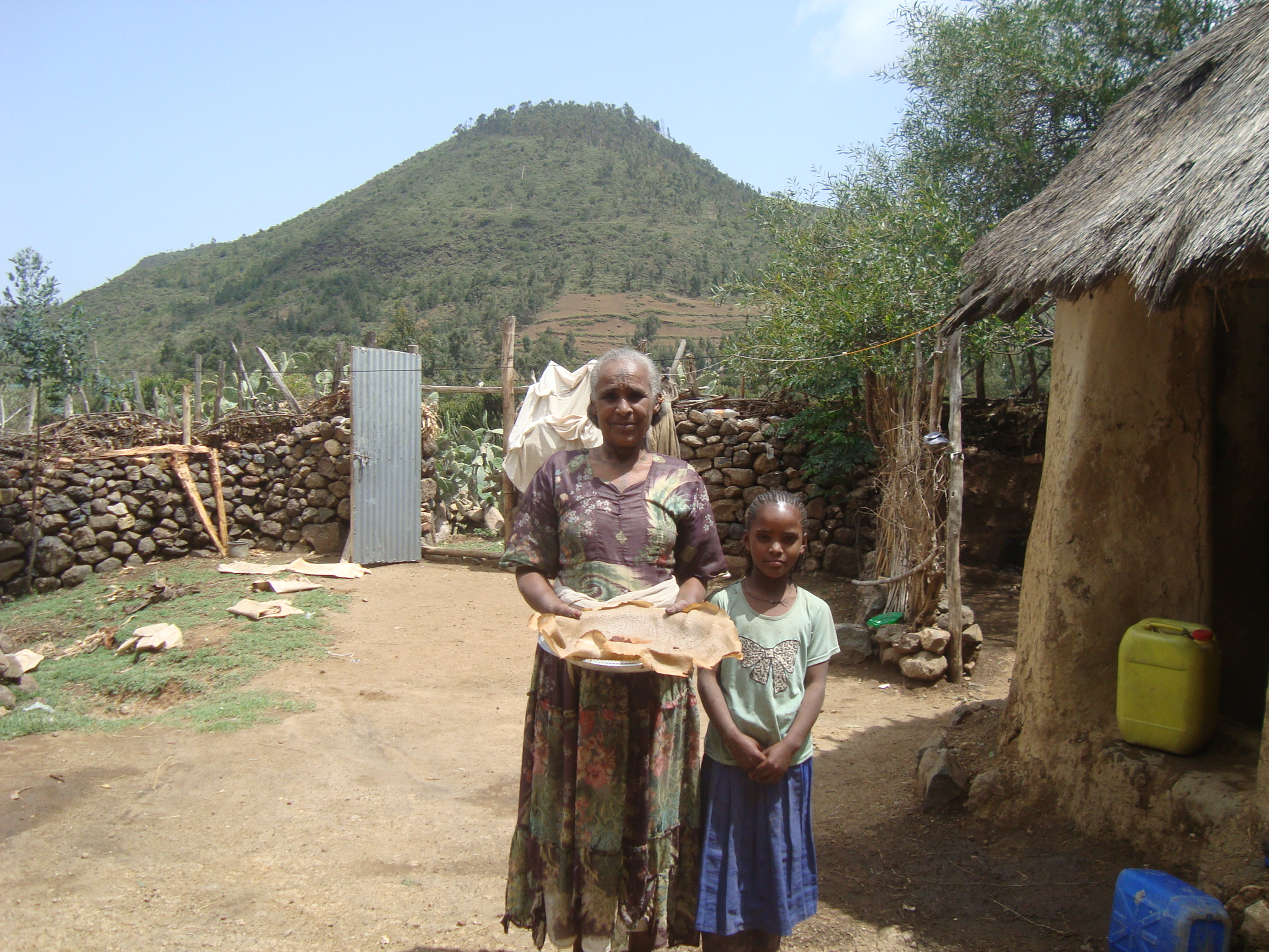 Mount Gumawta in Dogu'a Tembien and most welcoming population in the village of Dingilet